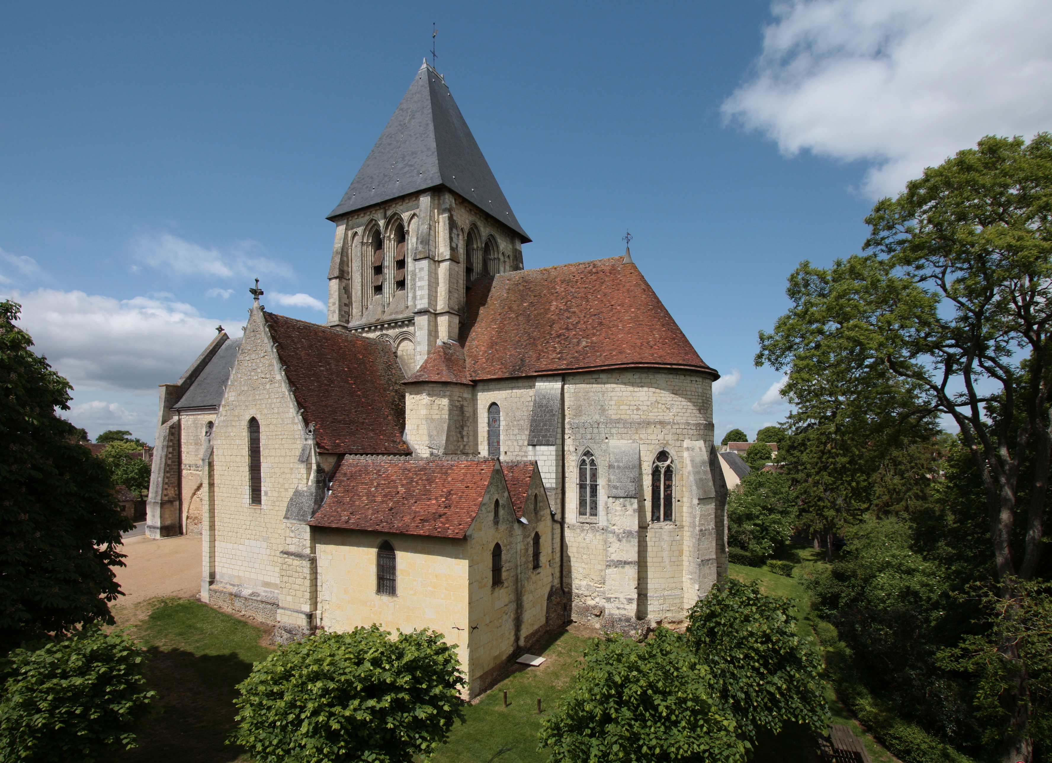 Saint Martin Collegiate church in Trôo (Loir-et-Cher, France).